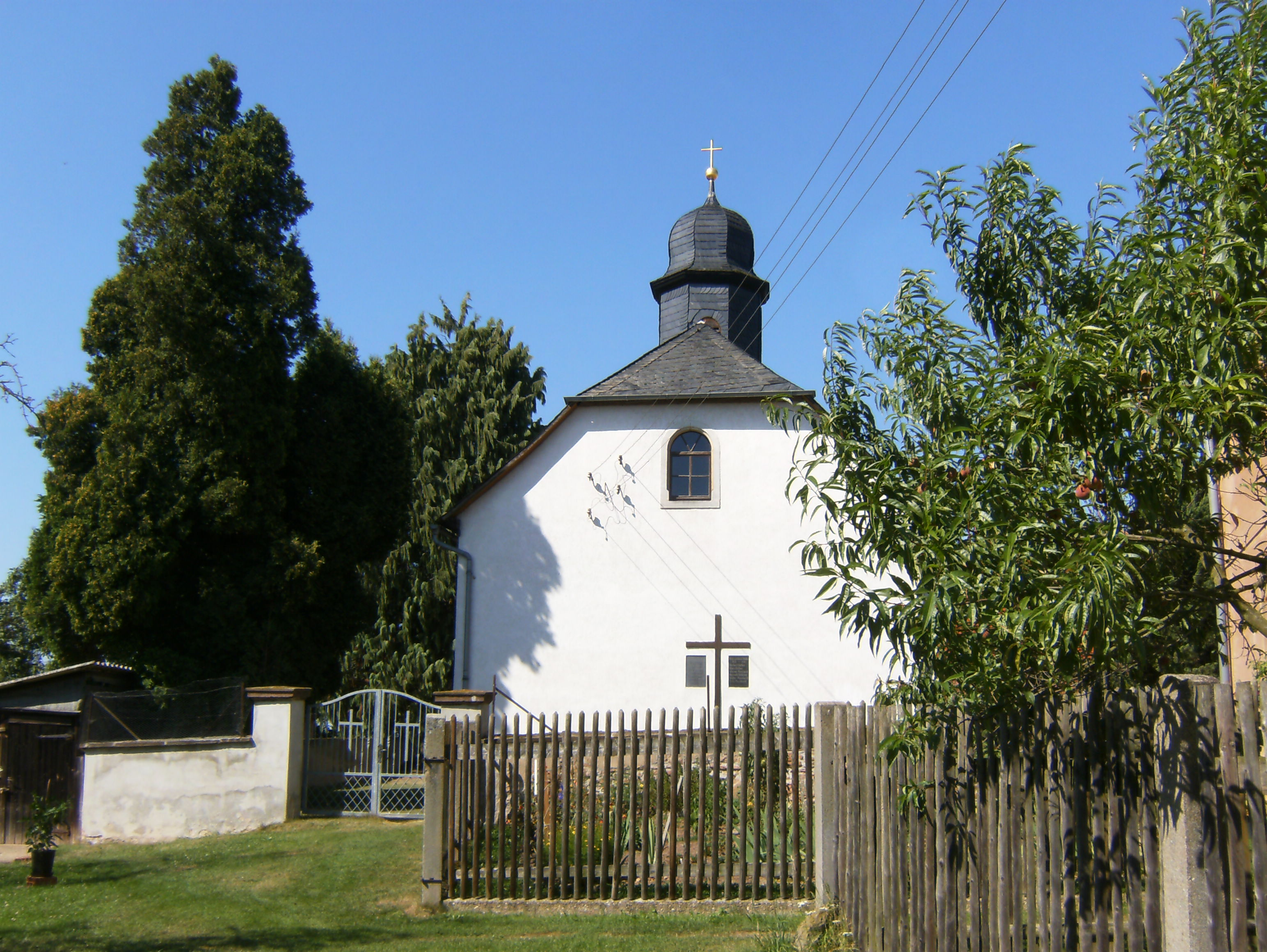 Großfalka village church.